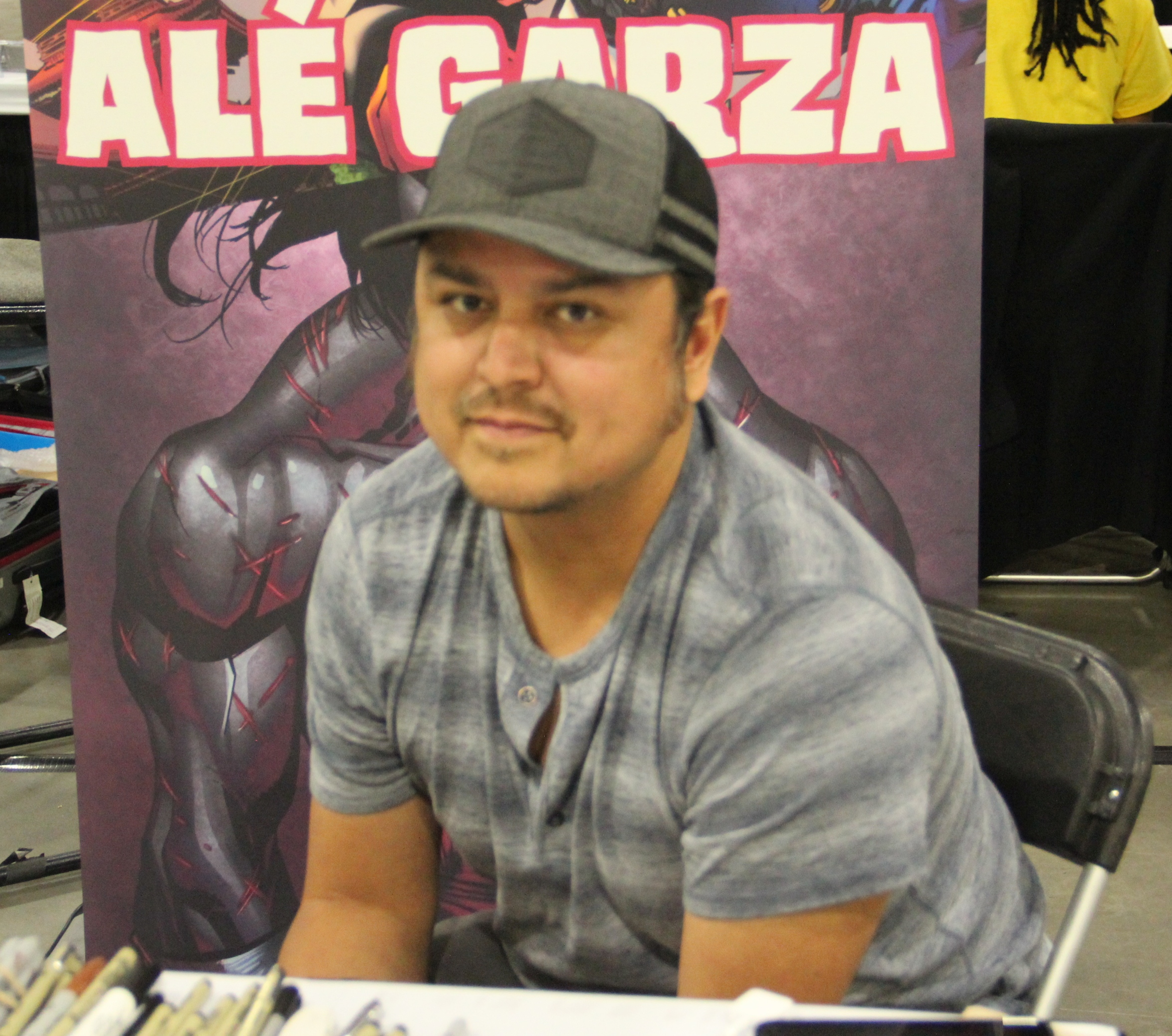 Alé Garza